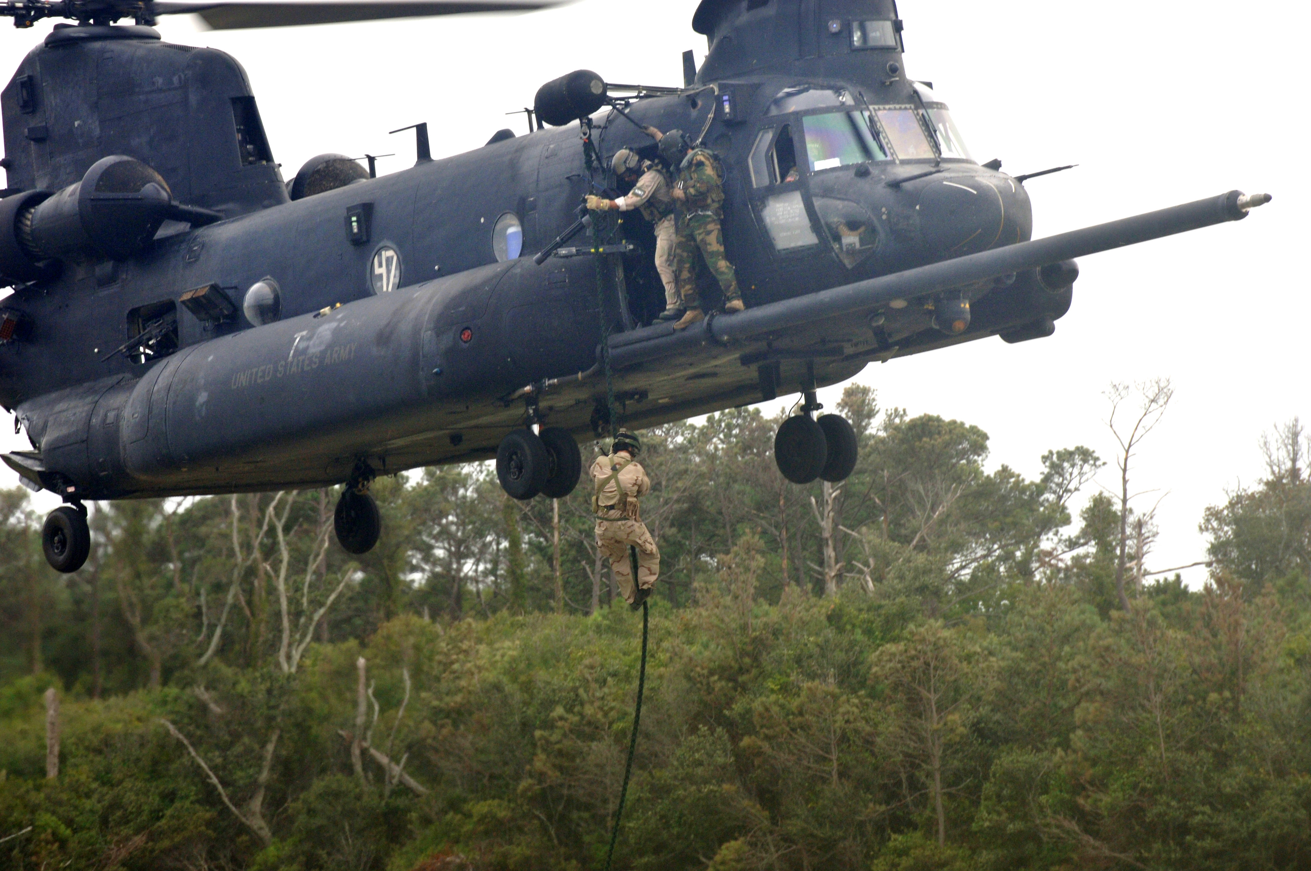 A U.S. Air Force Airman fast ropes from an MH-47 Chinook helicopter from an MH-47 Chinook helicopter assigned to U.S. Army 160th Special Operations Aviation Regiment on Fort Fisher in Kure Beach, N.C., Sept. 19, 2007. Airmen and Soldiers from Hurlburt Field, Fla., and Fort Campbell, Ky., participated in the two-week long training. (U.S. Air Force photo by Airman Matthew R. Loken)